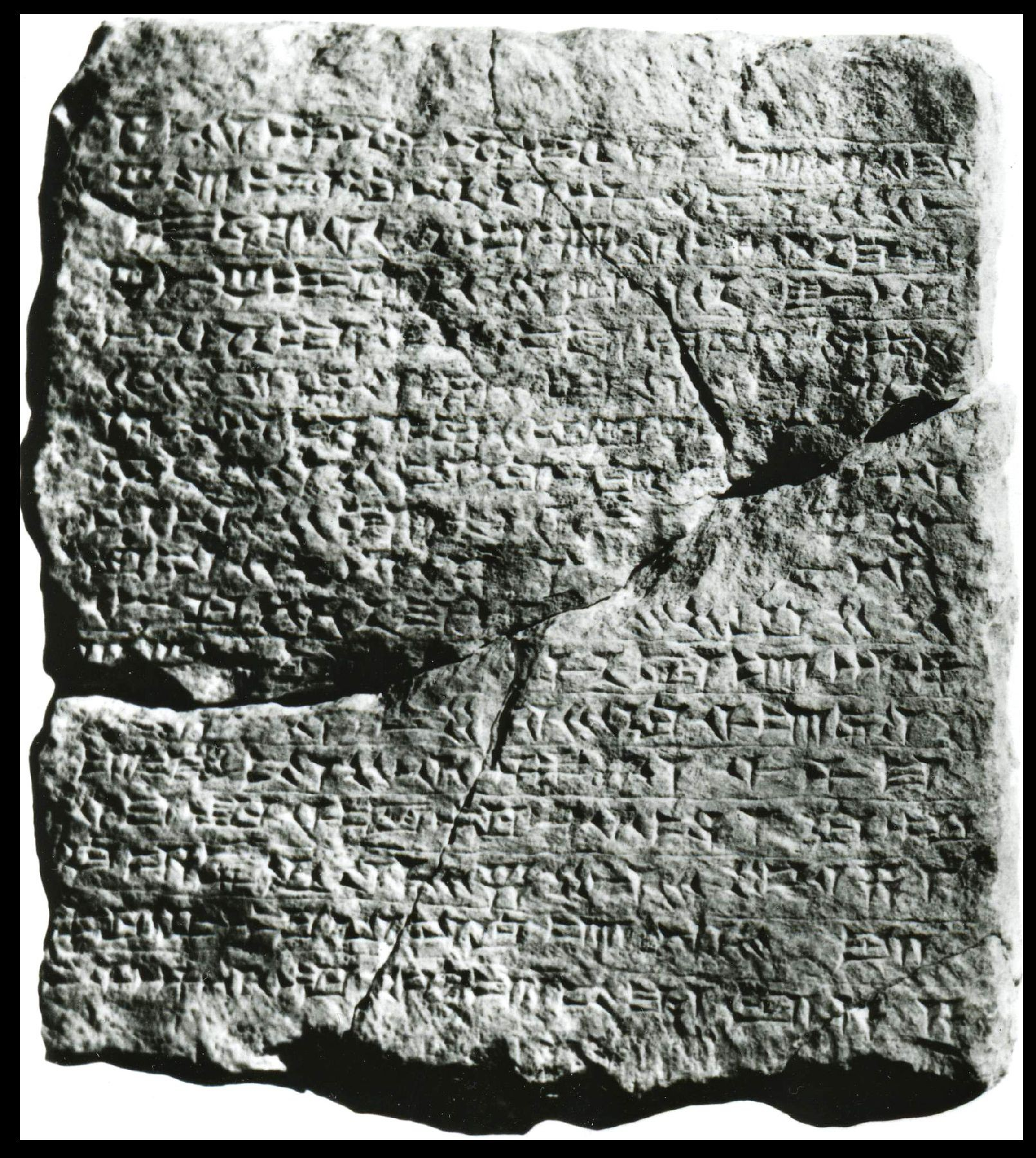 cuneiform depiction